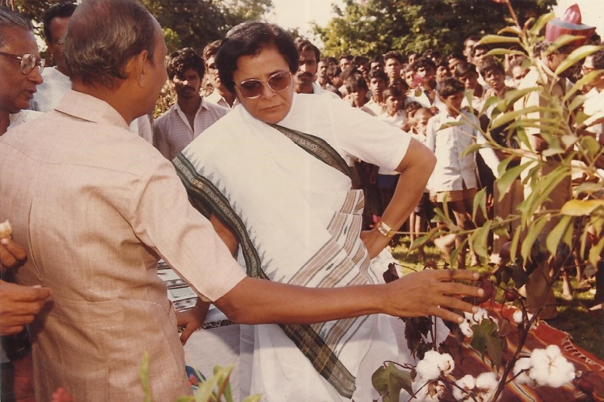 Kaderbad Ravindranath explaining the benefits of new cottony variety developed at ICMF form to Smt. Kumud Ben Joshi, Governer of Andhra Pradesh